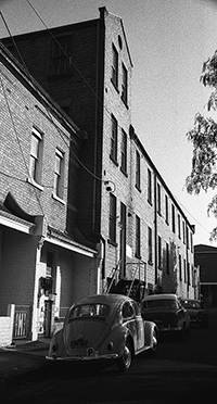 Art gallery in Richmond, an inner suburb of Melbourne, photographed in 1971 at its most significant period, photographed by Wes Placek, who exhibited there.